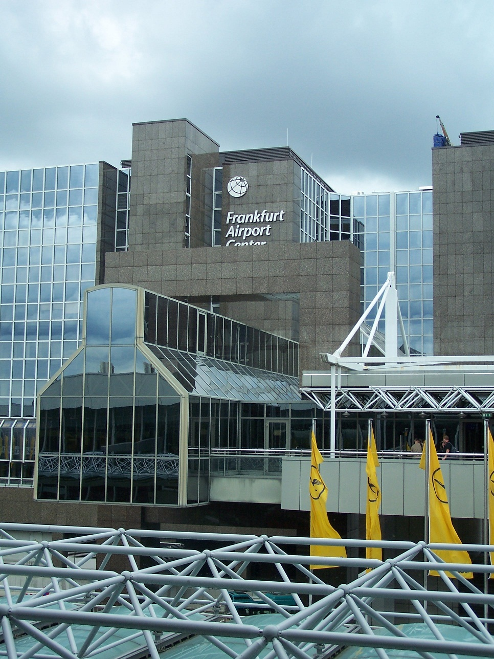 Frankfurt Airport Center 1 (FAC 1) at Frankfurt Airport